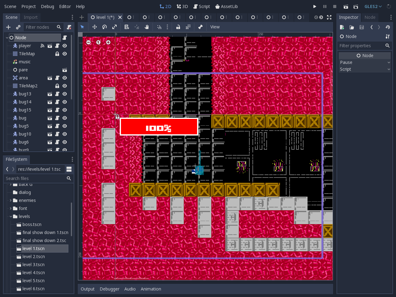 A screenshot of the editor of Godot Engine 3.1